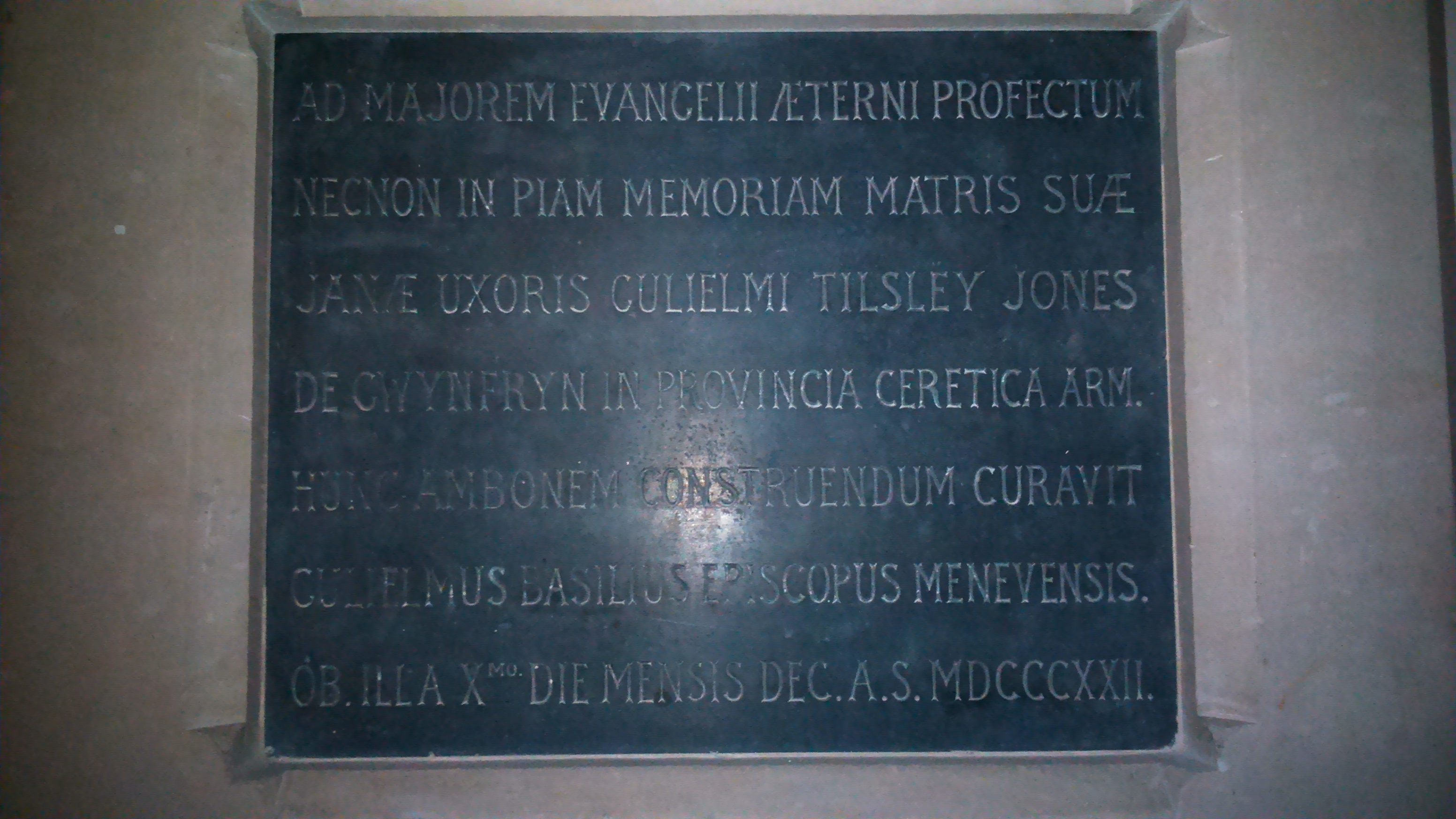 Inscribed brass plaque on east side of pulpit in Llanbadarn Fawr church